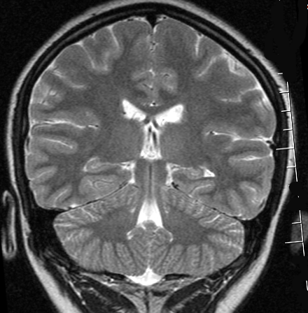 Brain & Cerebellum T2